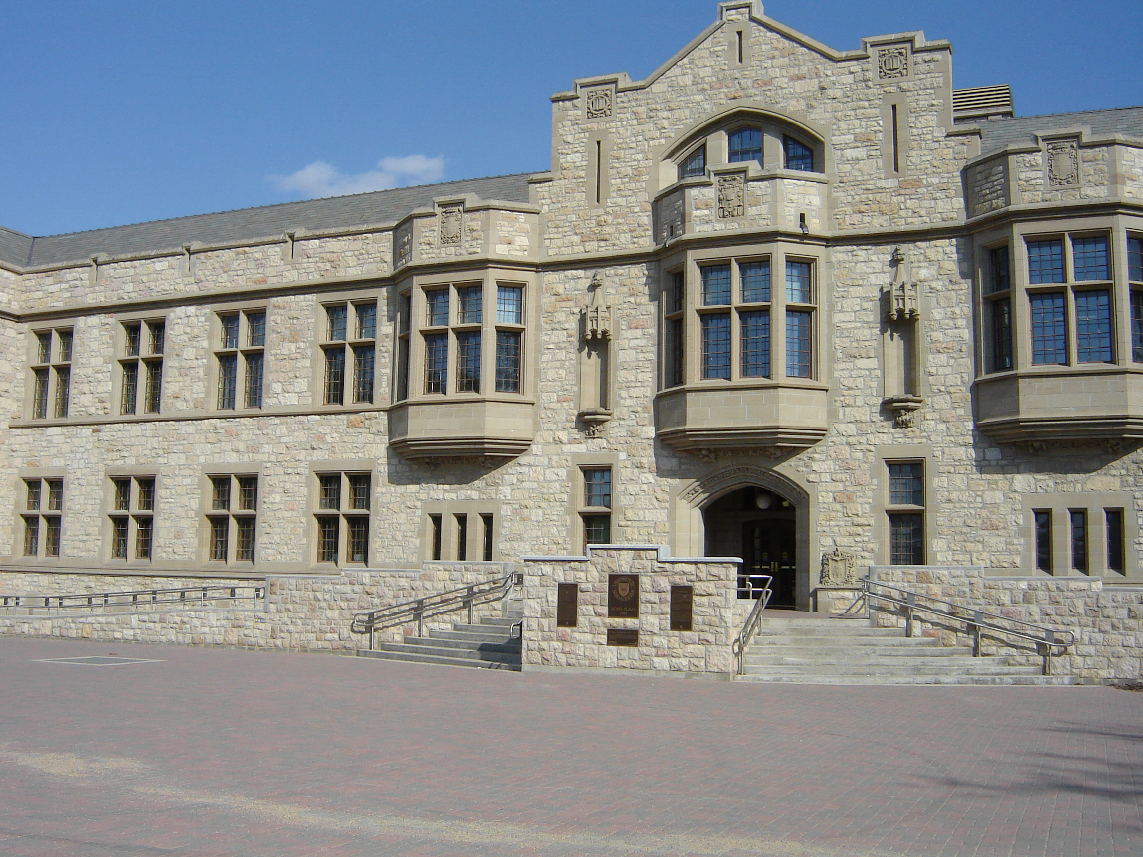 College Building U of S Saskatoon Sasktchewan Canada